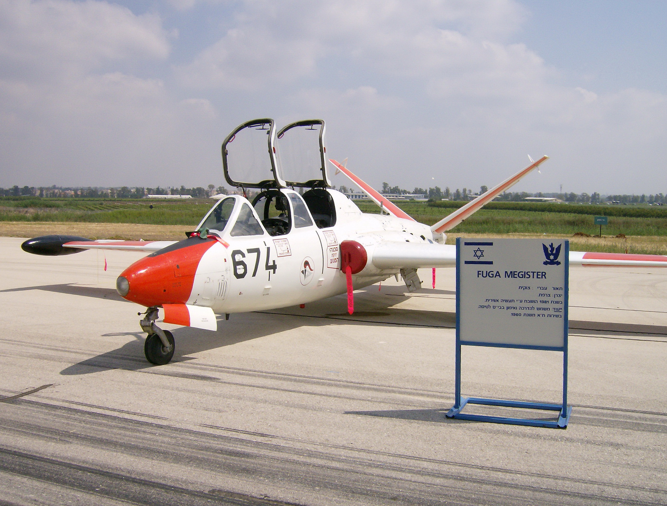 an israeli Fouga for training (Tzukit)“”.